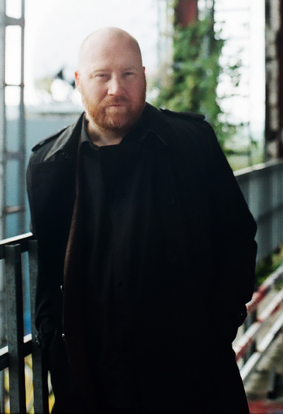 Jóhann Jóhannsson Format: Analog